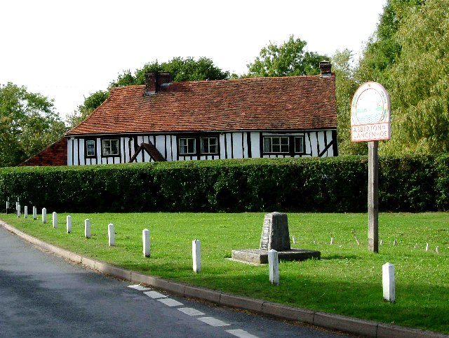 Abberton & Langenhoe Sign. This is a picture of the village sign for the twin villages of Aberton and Langenhoe. These two villages are bisected by the B1025 Mersea Rd to the east of the road is Langenhoe and to the west is Abberton. The stone under the sign is a war memorial, which is unusual in that is was not erected until the year 2000. The photo was taken looking east with the B1025 running north south behind the photographer.